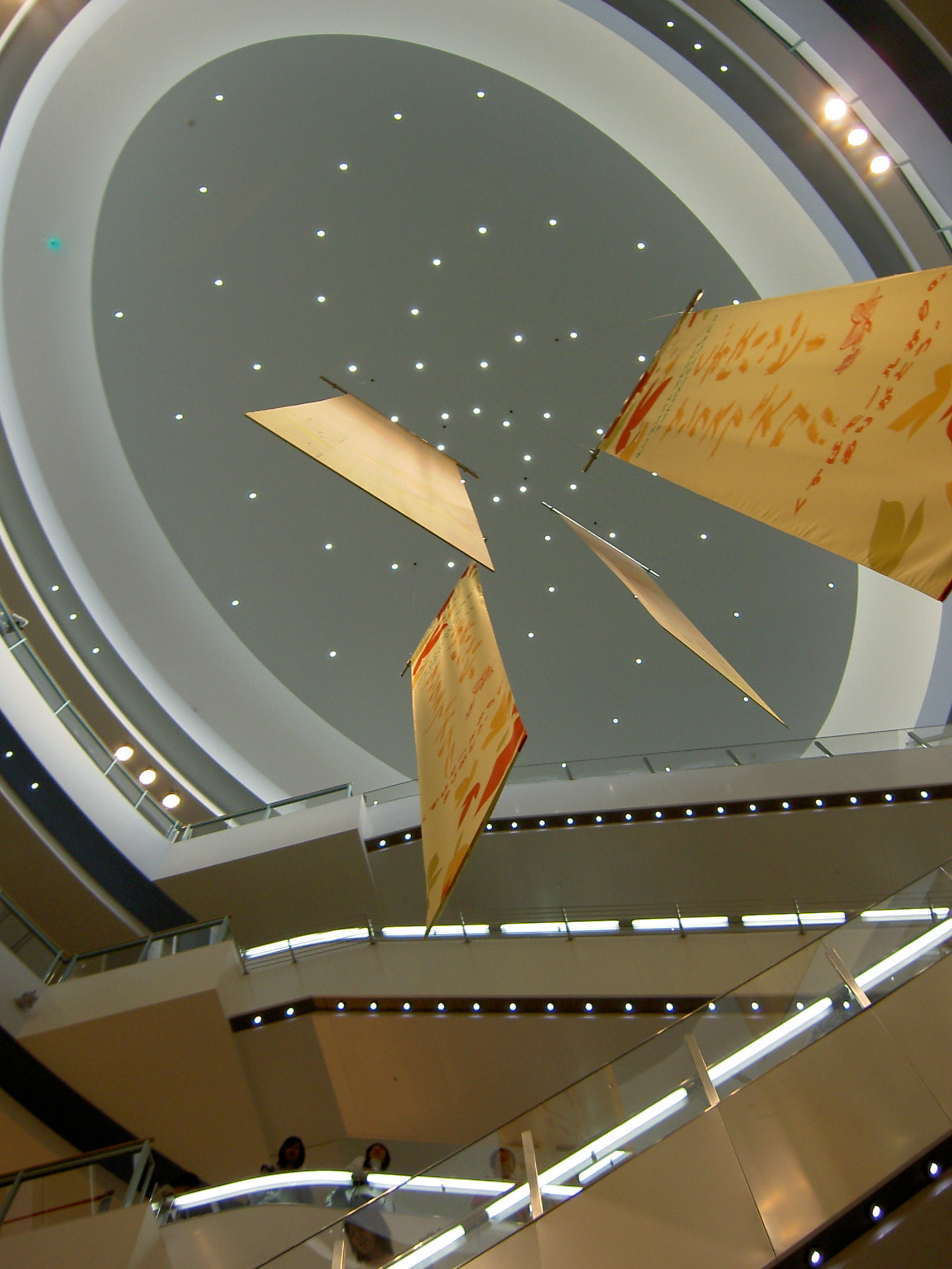 Picture of look up at the ceiling in KUZUHA MALL Grand Atrium, Hirakata-shi, Osaka, Japan.